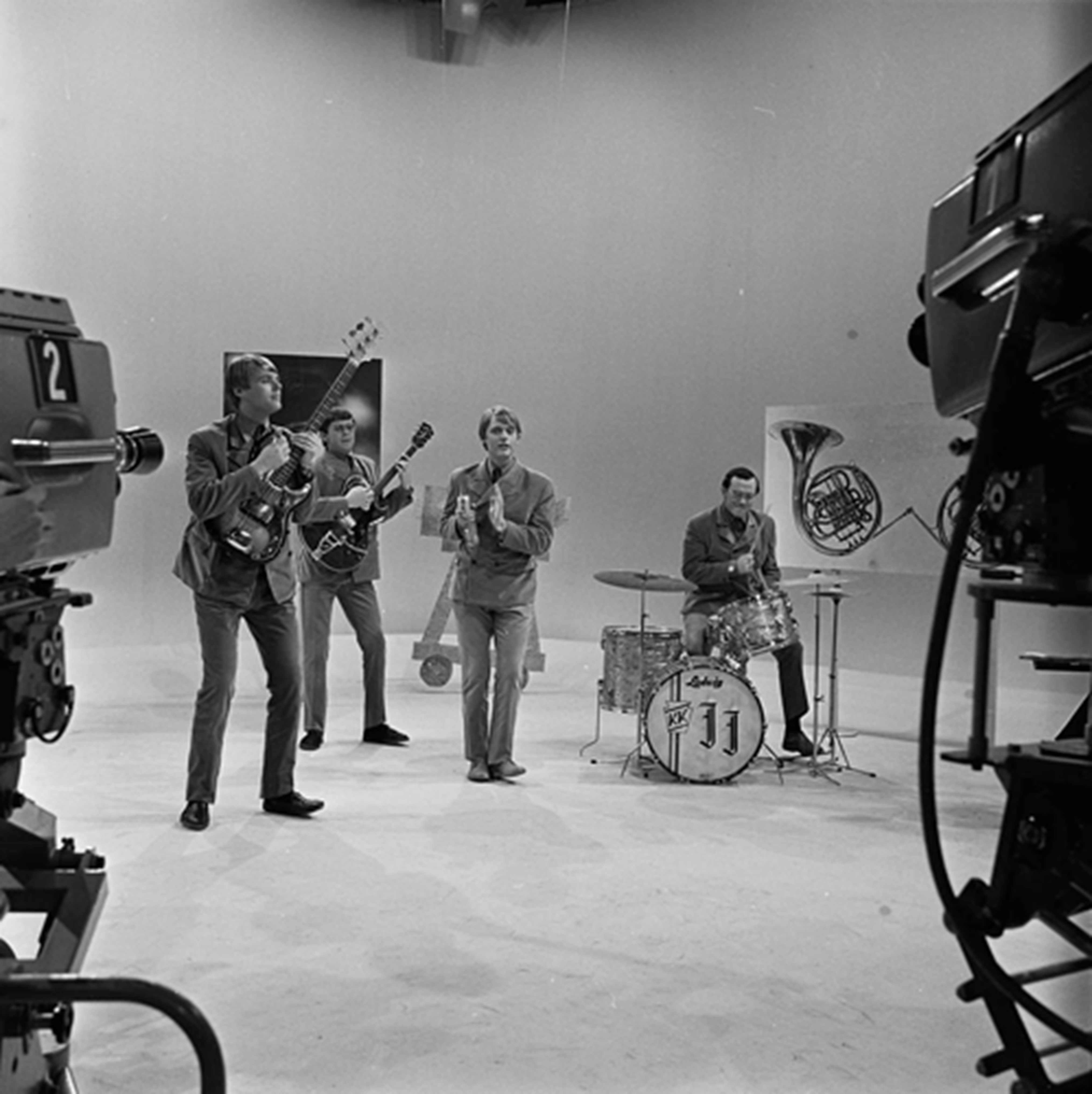 Dutch musical group The Jay Jays (formerly The Jumping Jewels) performing "So mystifying" and "Bald headed woman". Recording for Dutch TV programme Fanclub. Recorded 8 January 1966. Broadcast 14 January 1966.